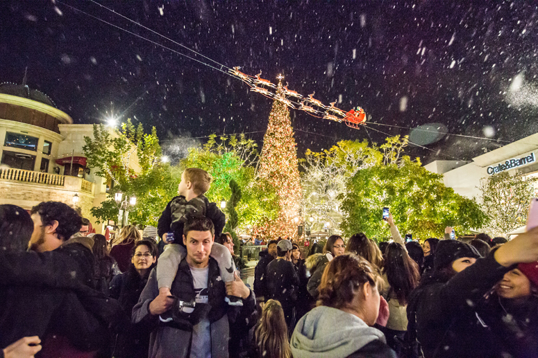 Crowds enjoy a MagicSnow production at The Grove in Los Angeles.